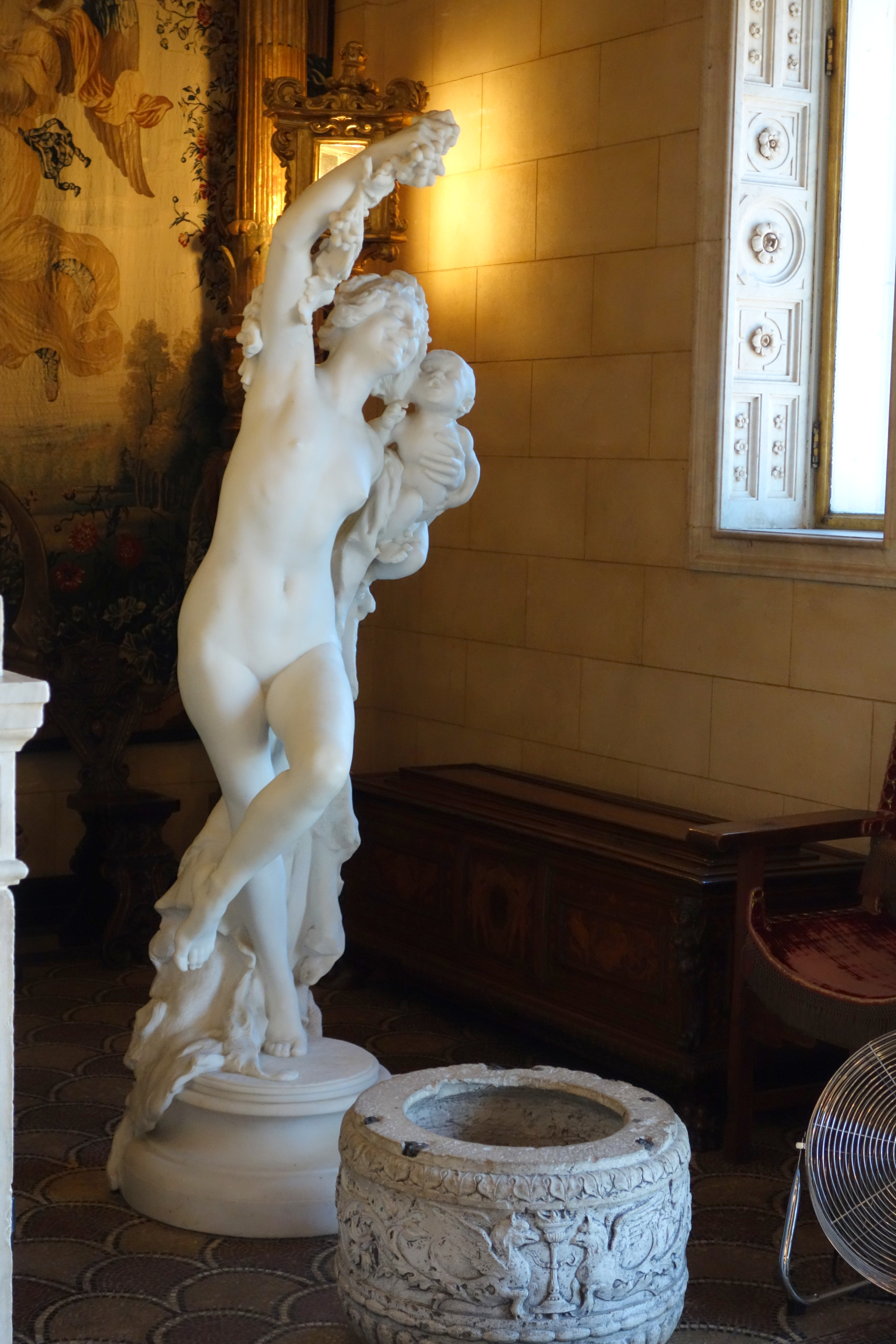 Artwork inside Hearst Castle, San Simeon, California, USA. Photograph was permitted without restriction in and around the castle. All artwork is old enough so that it is in the public domain.